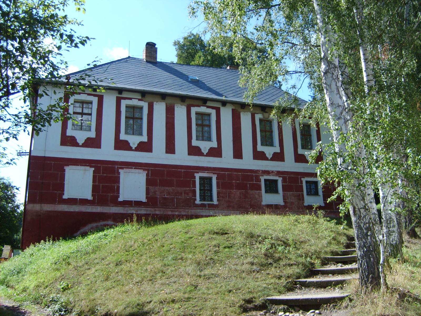 Rectory (built in 1769), Dolní Bělá, Plzeň-North District, Czech Republic.